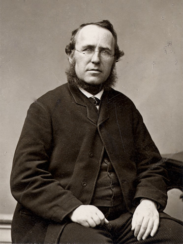 Joseph-Charles Taché, ca. 1875.